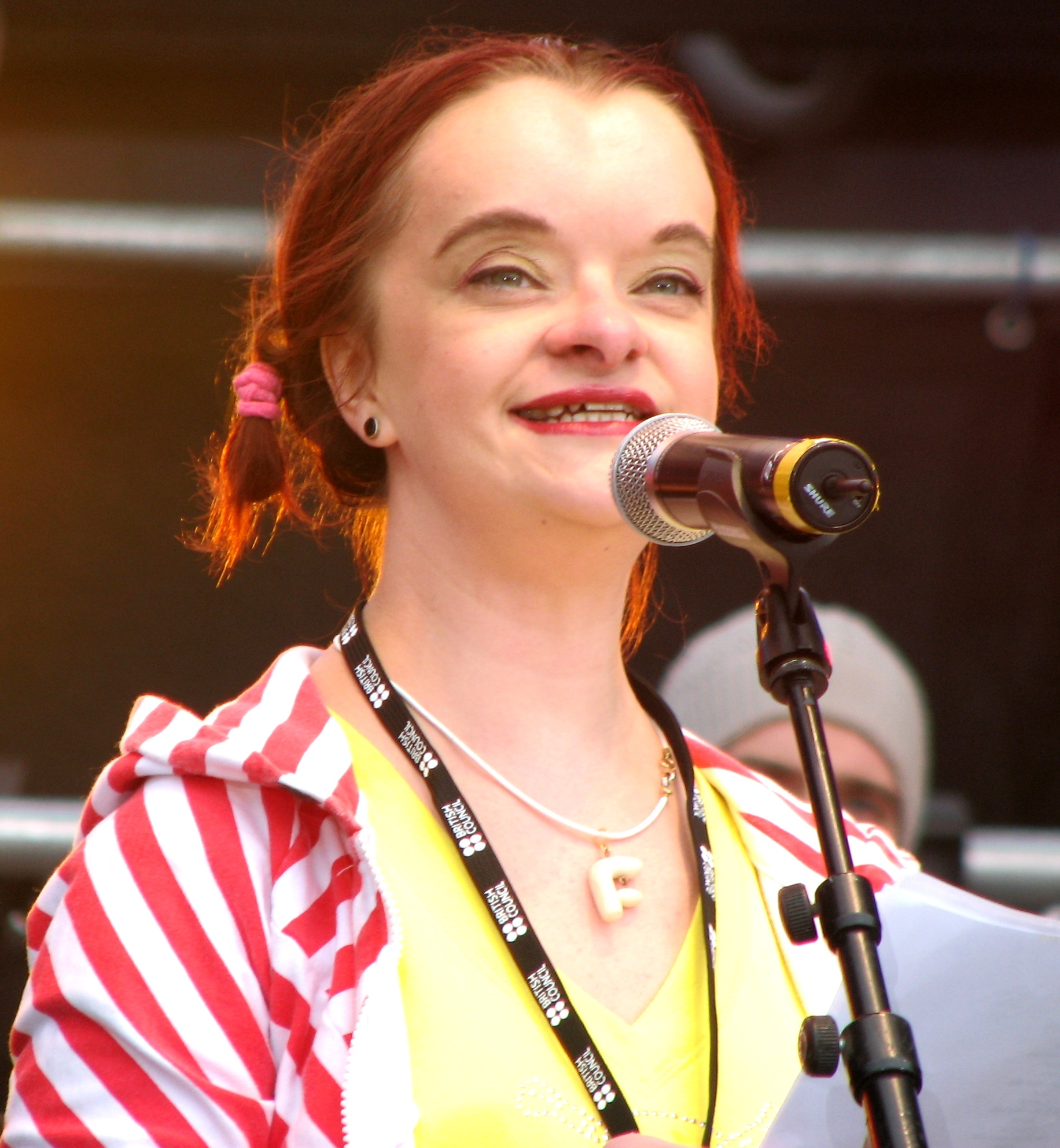 Margit Adorf performing in Grand Slam in Freedom Square, Tallinn